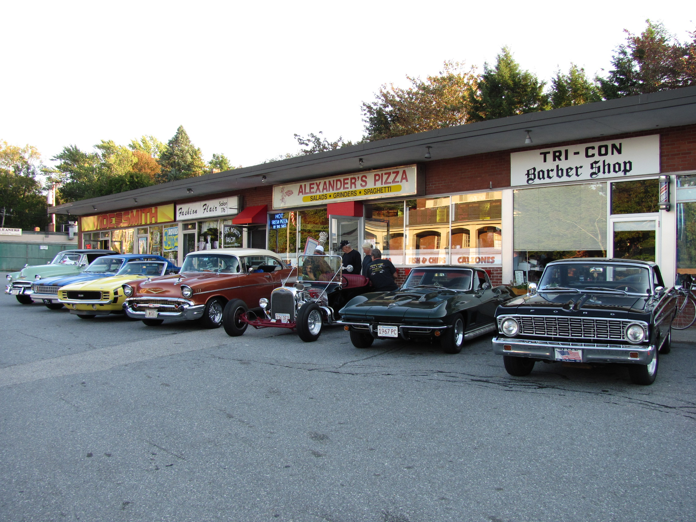 Cruise Night, Lexington Massachusetts